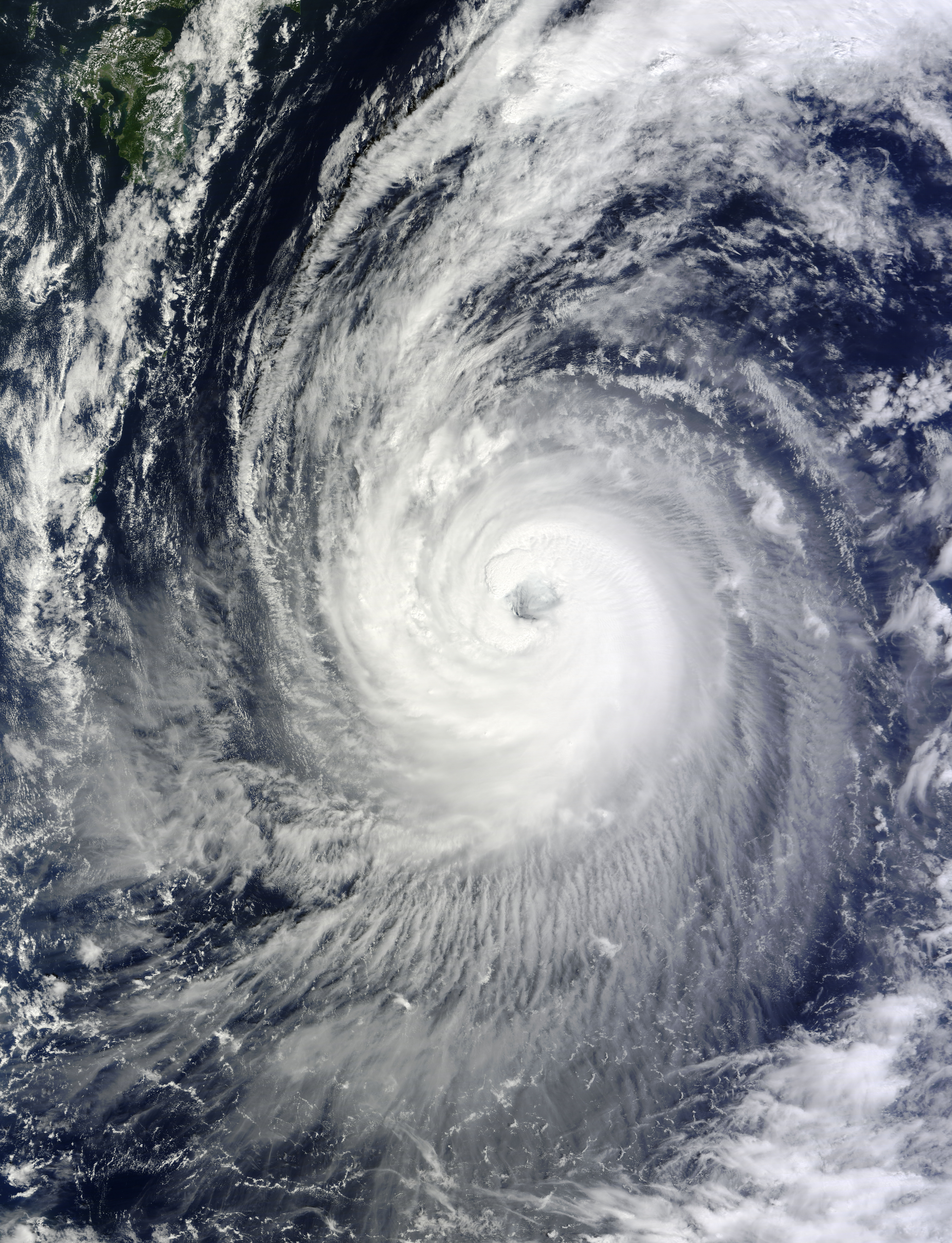 Typhoon Phanfone (18W) in the western Pacific Ocean: The Moderate Resolution Imaging Spectroradiometer (MODIS) on NASA's Terra satellite acquired this natural-color view of the Category 3 storm at 10:55 a.m. Japan Standard Time (01:55 Universal Time) on October 3, 2014. Near the time of this image, maximum sustained winds were estimated at 204 kilometers (127 miles) per hour, according to Unisys Weather. At 12:12 p.m. Japan Standard Time (03:12 Universal Time) that day, maximum significant wave height was 13 meters (44 feet), according to the U.S. Navy's Joint Typhoon Warning Center. The typhoon was centered at 24.4° North latitude, 133.7° East longitude, about 1,370 kilometers (850 miles) south-southwest of Yokosuka, Japan. Caption credit: Kathryn Hansen